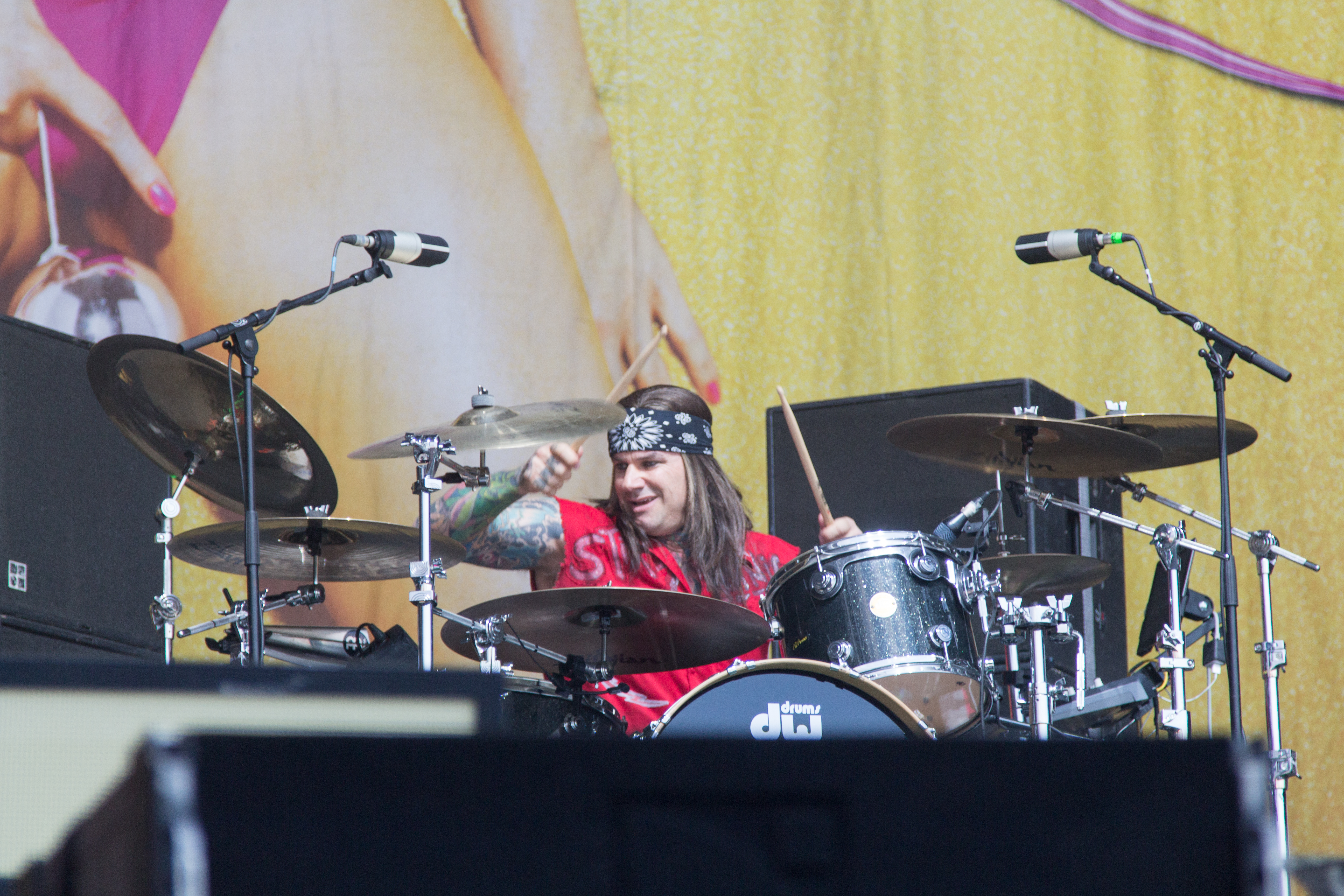 Stix Zadinia from Steel Panther at Nova Rock 2014